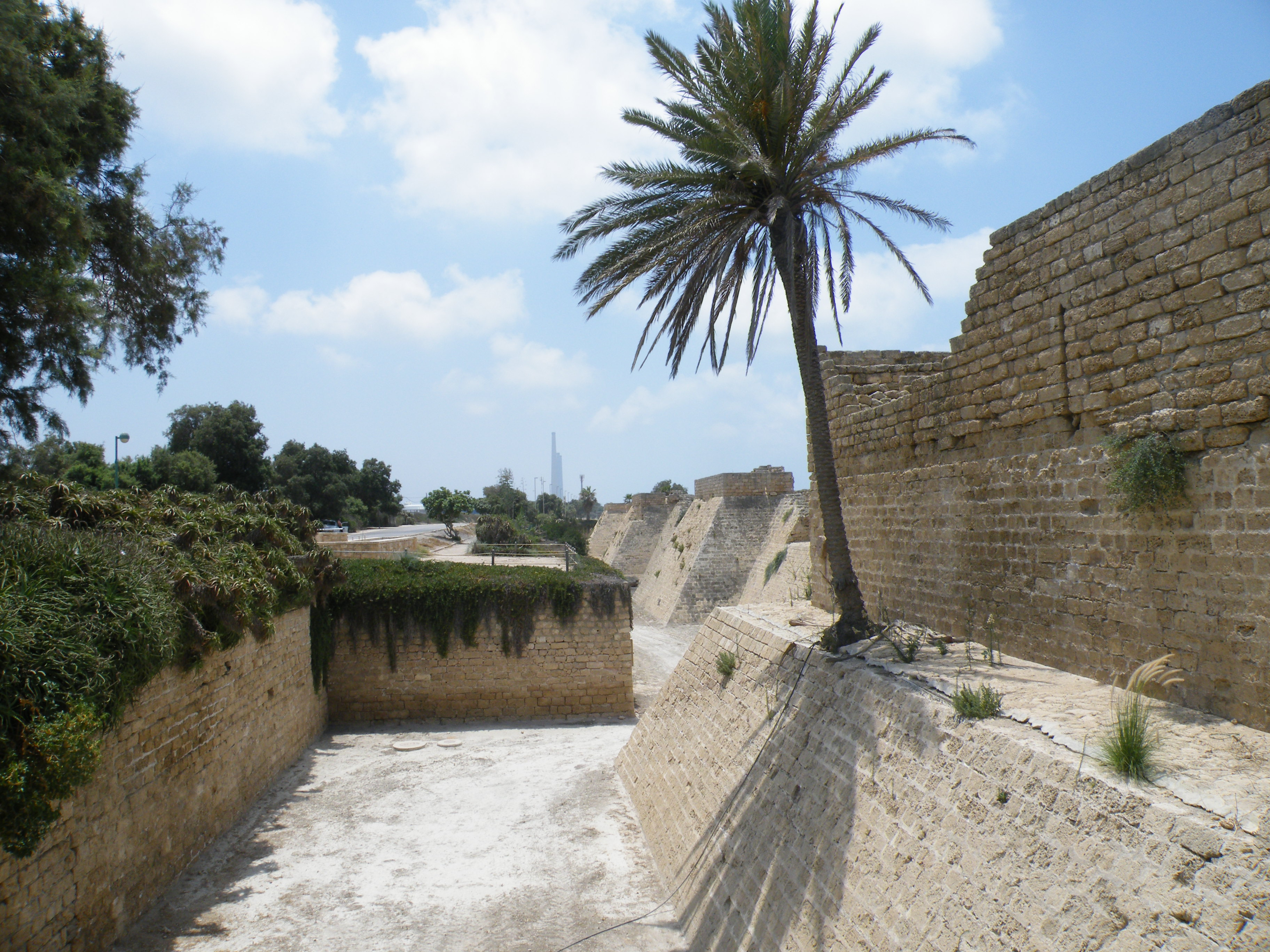 Remnants of the Crusader-era fortifications at Caesarea, put into place by King Louis IX of France.